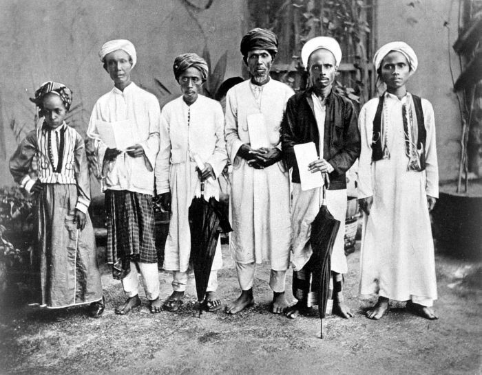 Negative. Pilgrims on their way to Mecca from Ambon, Kai and Banda island (South Moluccas) in the Dutch Consulate in Jeddah, S. Arabia.